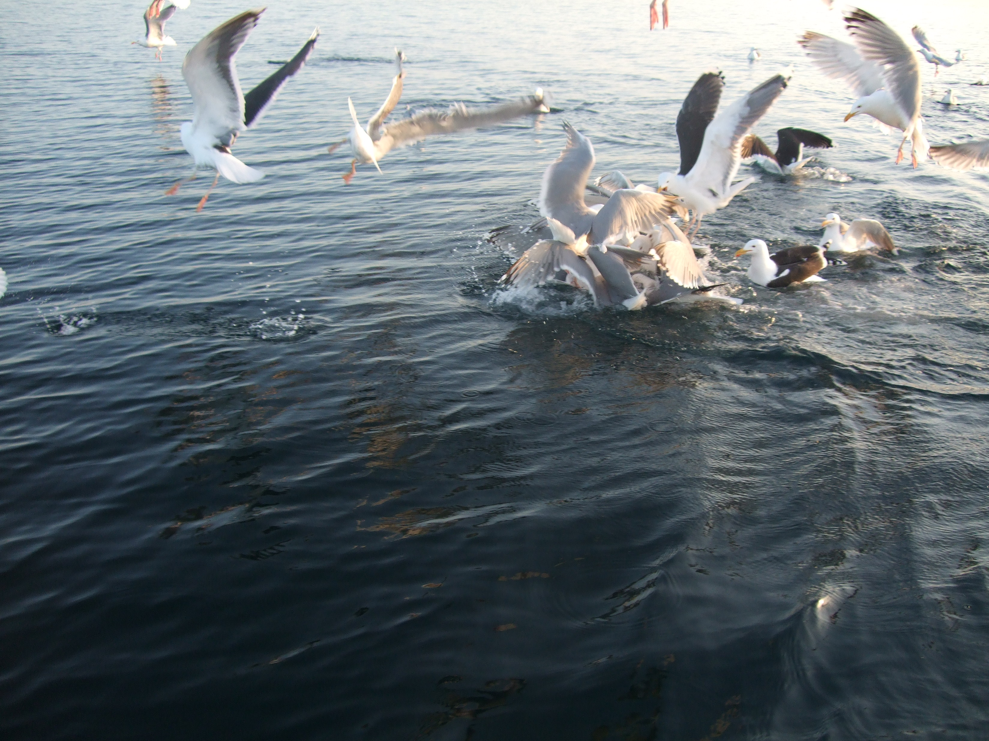 Herring Gulls and Great Black-backed Gulls photographed as they were following our vessel while we cleaned our catch. Location Flatøysundet, Vestfjord, Norway